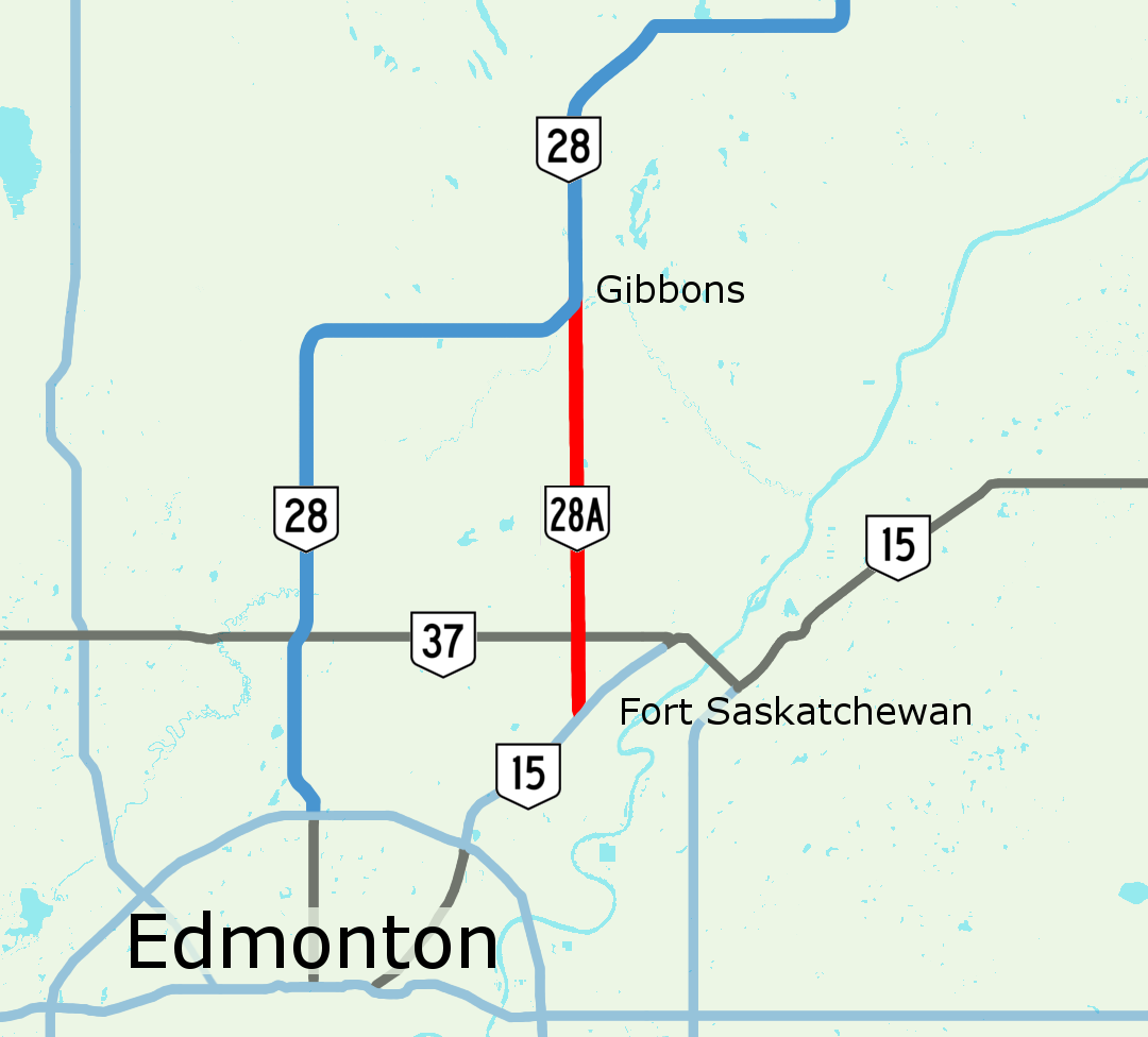 Alberta Highway 28A near Edmonton, Alberta. - created with OpenStreetMap